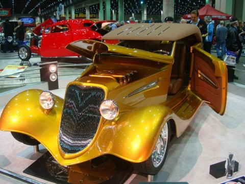 2010 Ridler-Winning '34 Ford Phaeton, owned by Georgia's Tammy Ray.